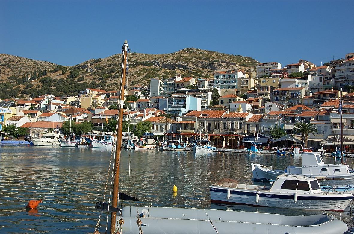 A view of the present harbour and town of Pythagoreion, located on the south-eastern part of the island of Samos, Greece.